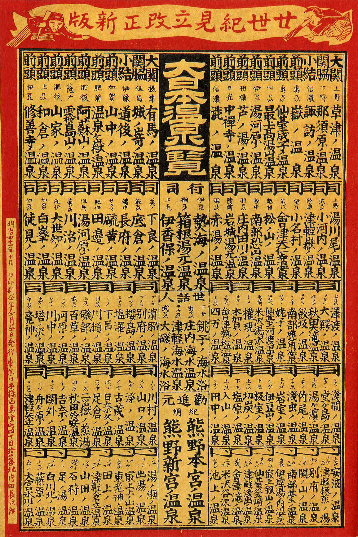 Onsen Banzuke in Meiji period, 1908.